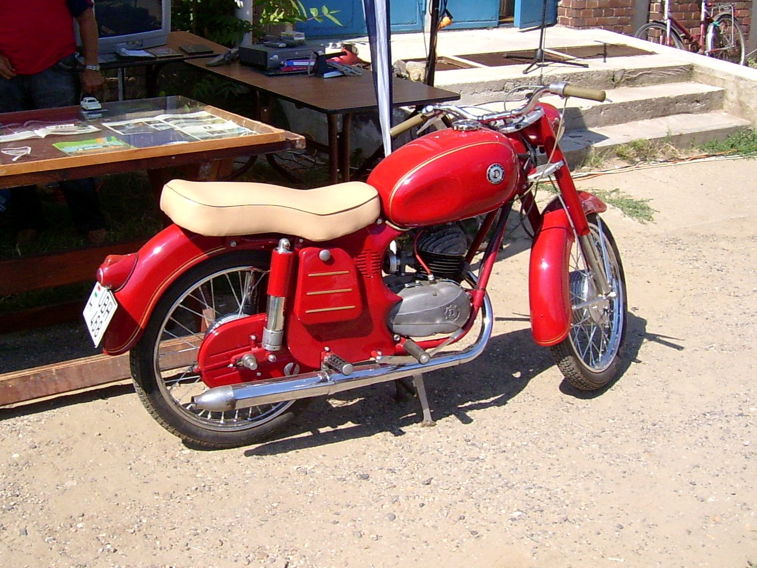 A Hungarian motorbike called Danuvia DV 125 from the early '60s.